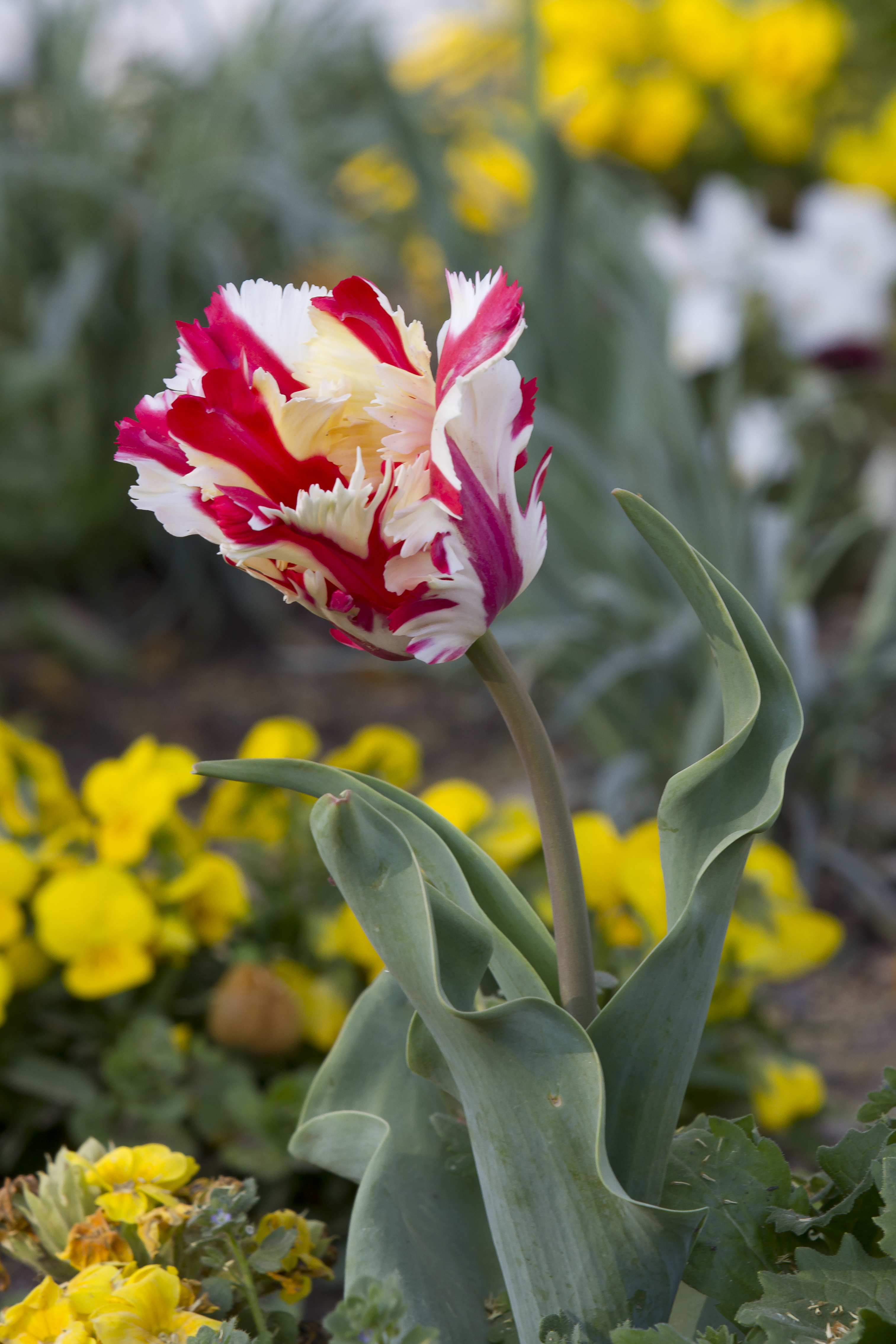 Flaming parrot – Cream and red tulip, Compans Caffarelli's garden in Toulouse